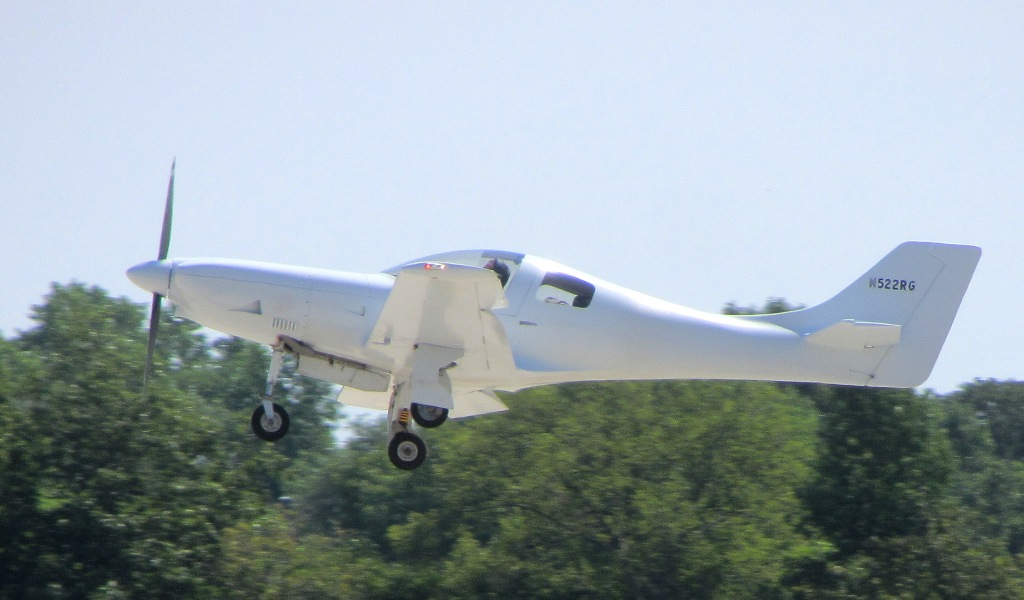 Lancair 320 landing